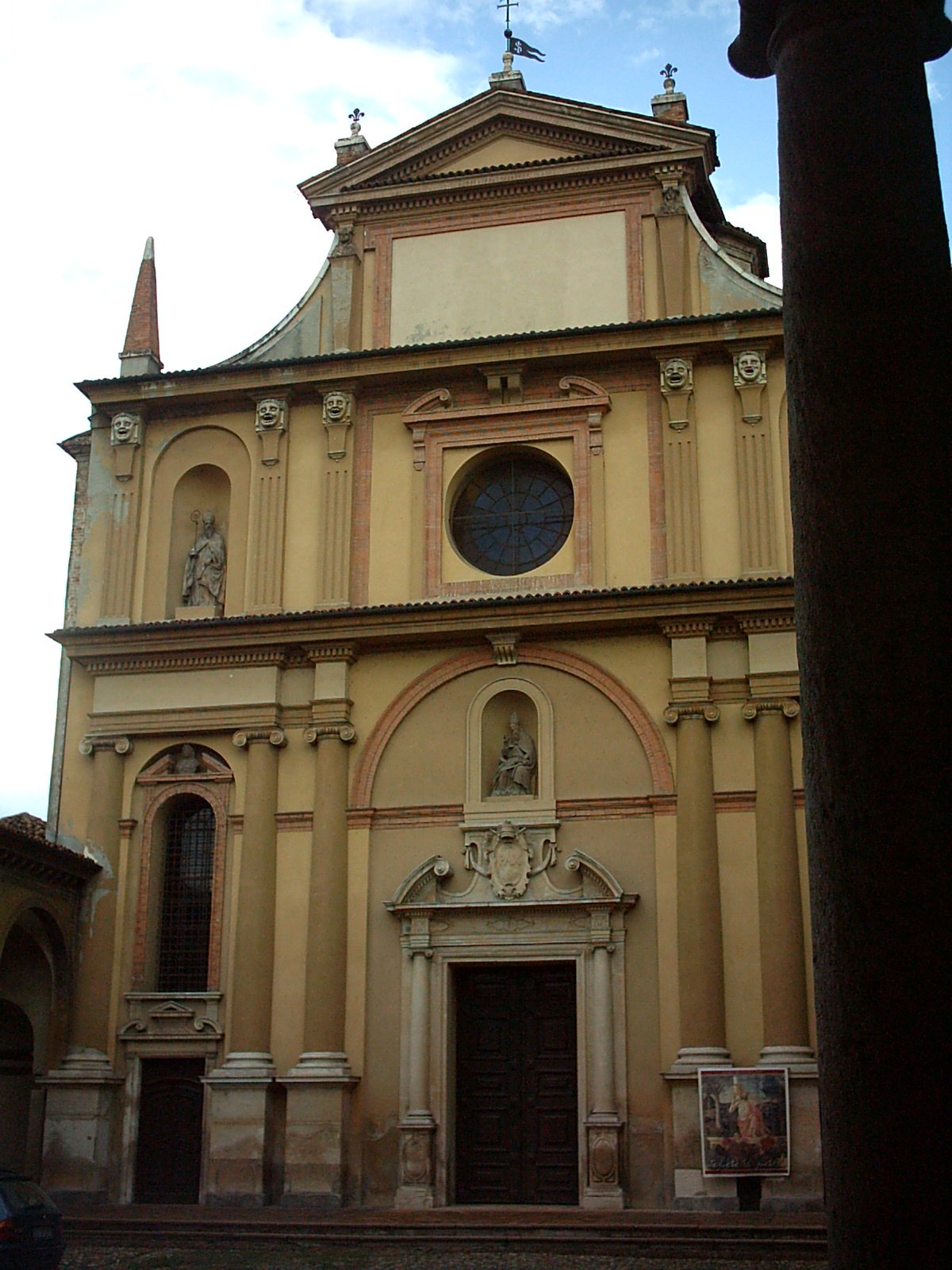 Chiesa di San Sisto, Piacenza, Italy